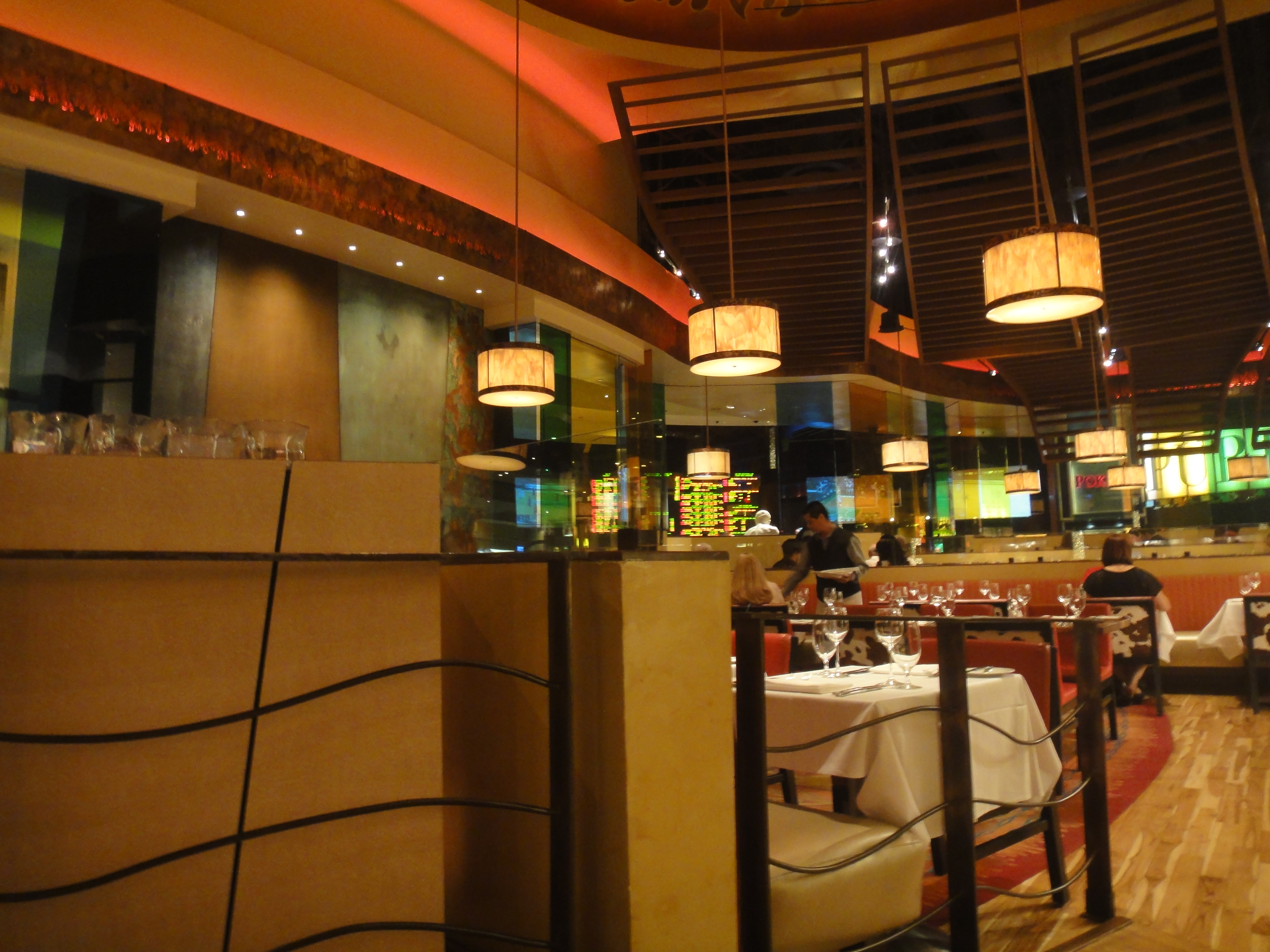 More about Mesa Grill Dining Room at Mesa Grill Las Vegas Find Great [ Vegas Deals]